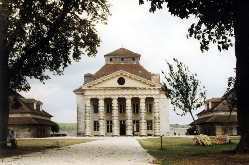 Royal Saline in Arc-et-Senans, France